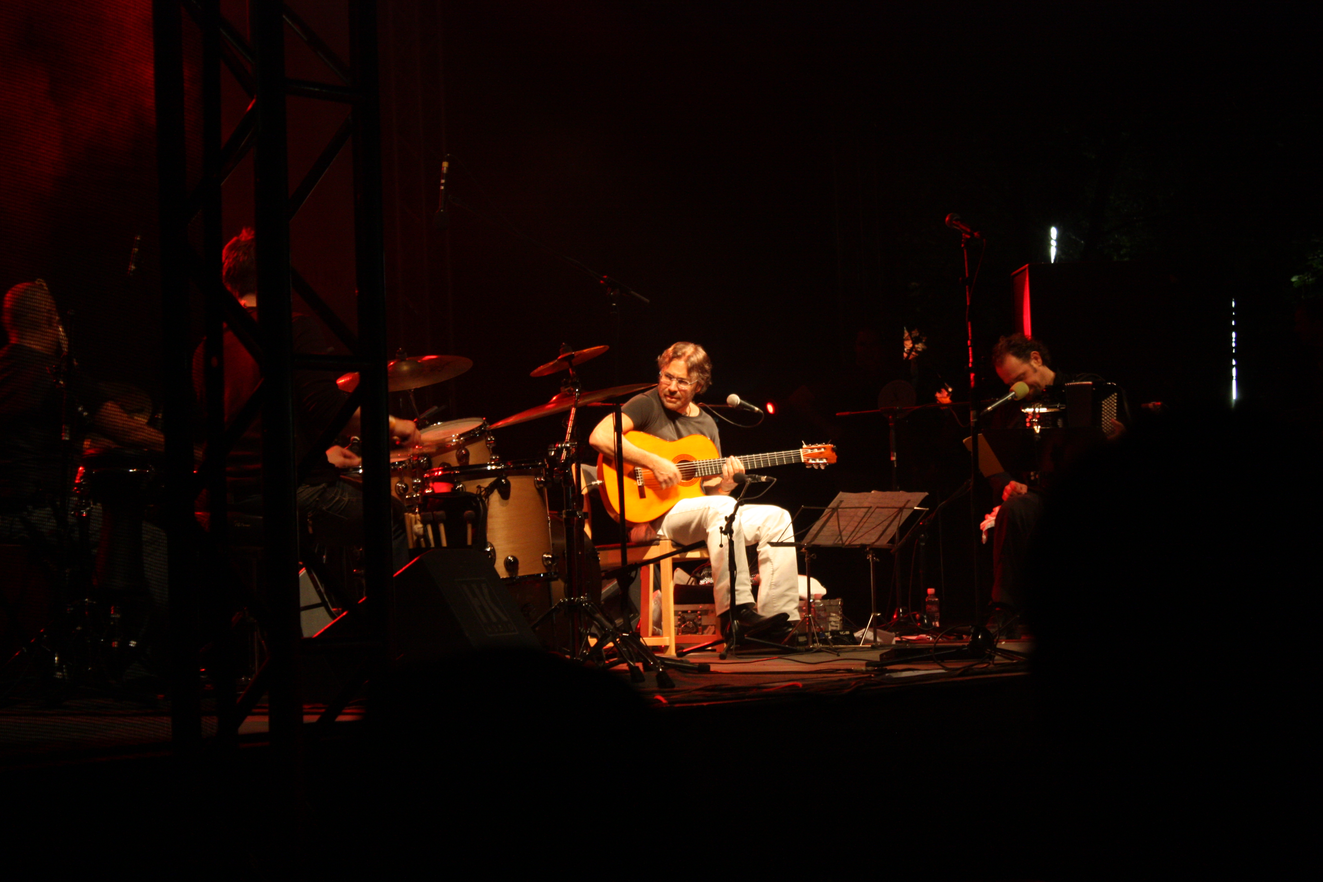 Al Di Meola, Sziget Festival (Budapest)